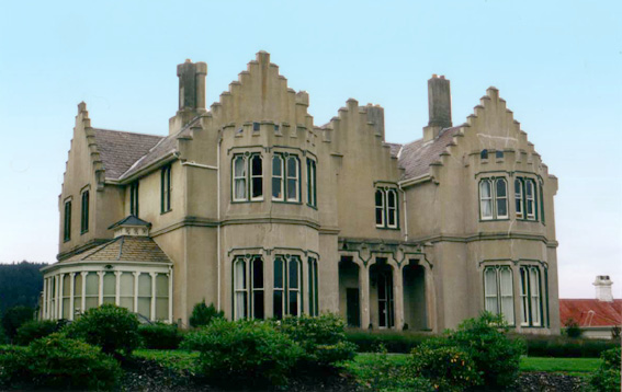 "Castlamore", Lovelock Avenue, Dunedin, New Zealand, designed by F.W.Petre. New Zealand Historic Places Trust Register number: 2184.